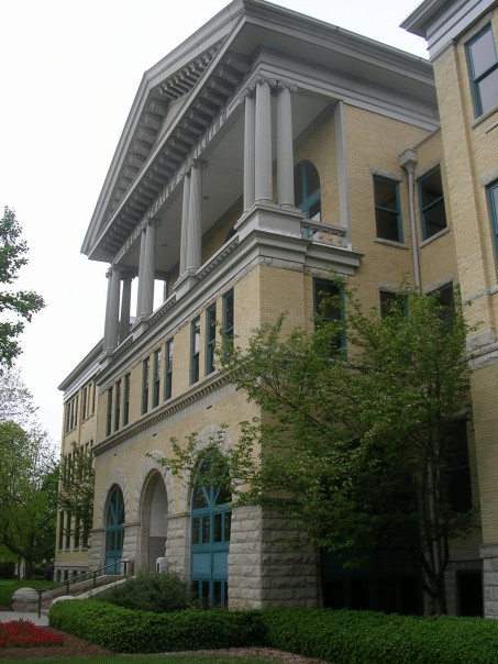 The Administration Building, Ball State University.